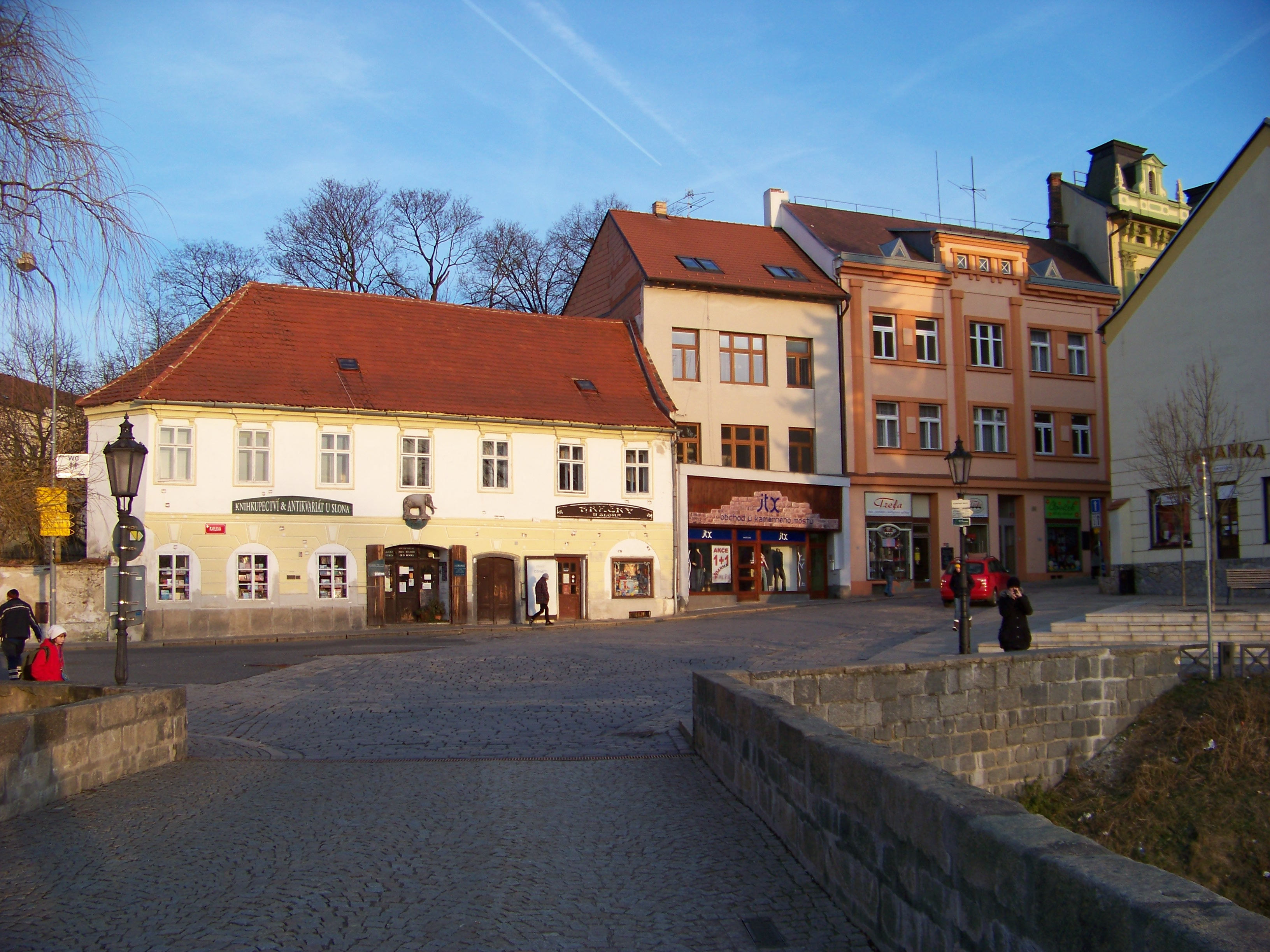 Písek, Písek District, South Bohemian Region, the Czech Republic. The Stone Bridge and Karlova street. - OpenStreetMap(Info)